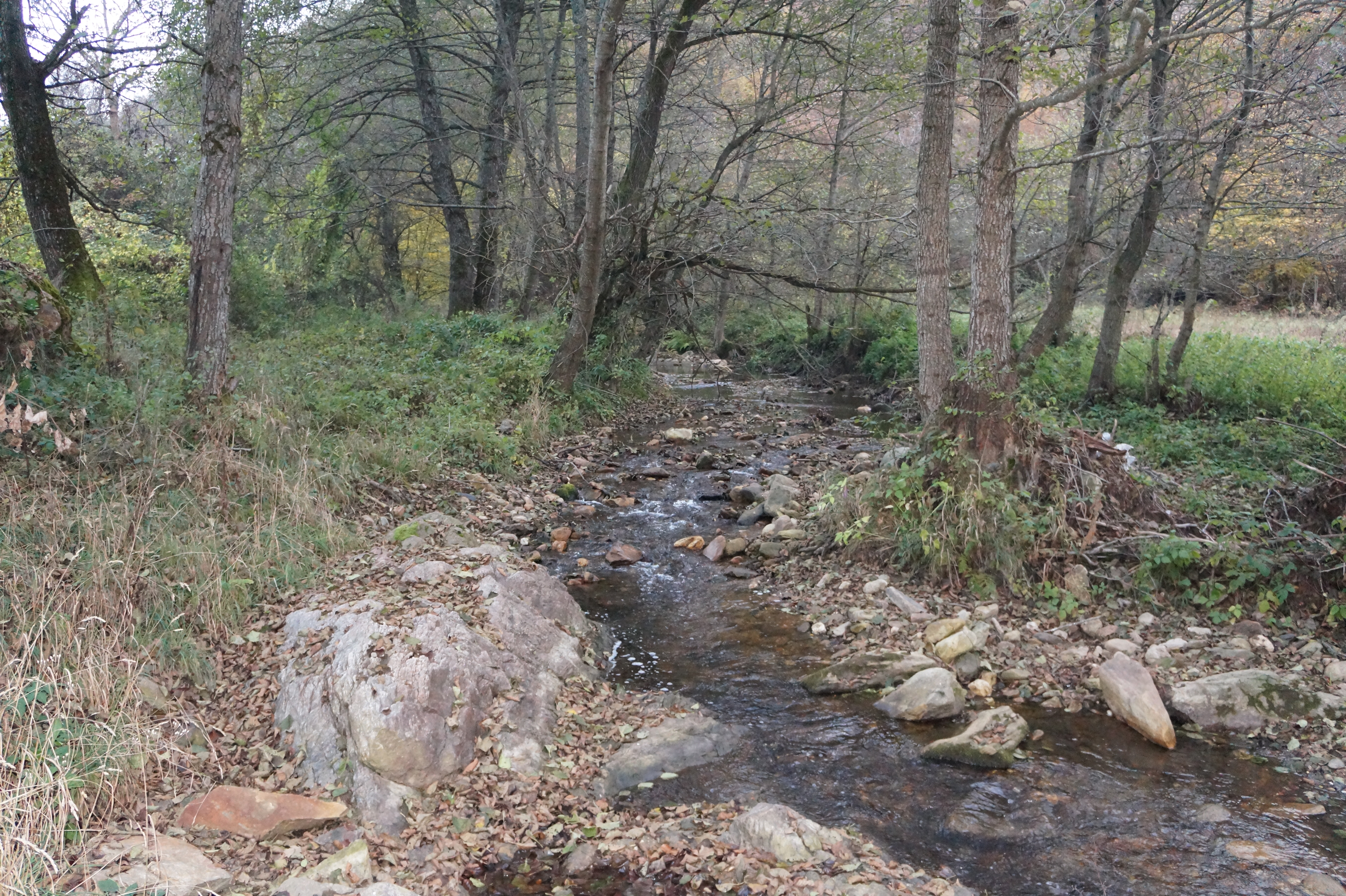 Slanska River in Porece region, Macedonia